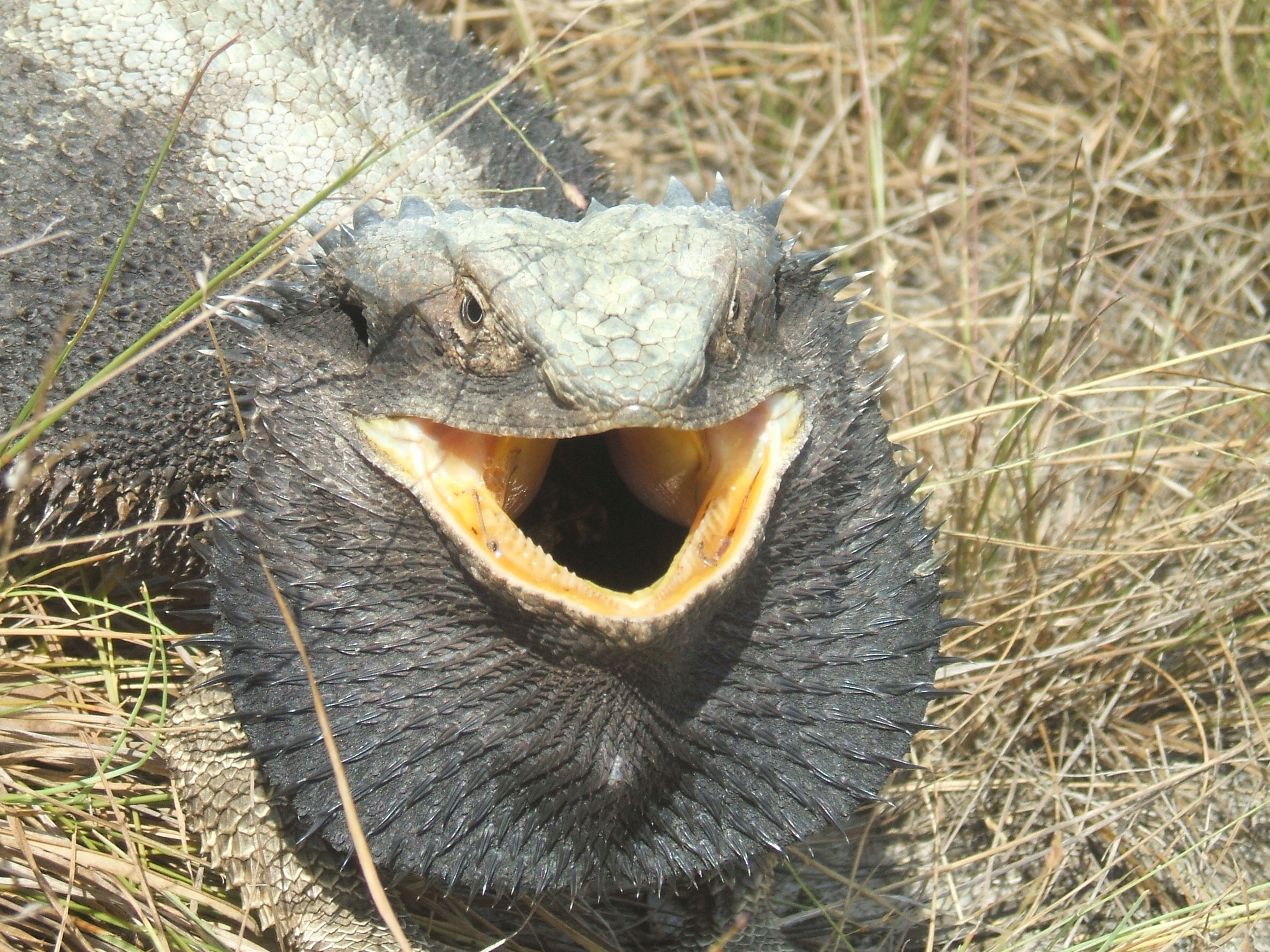 Eastern Bearded Dragon (Pogona barbata) showing a defensive display.